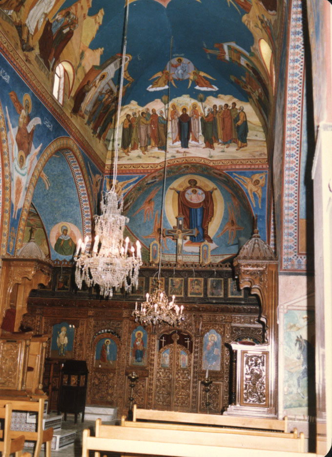 Church of Saint Elian in Homs, Syria.